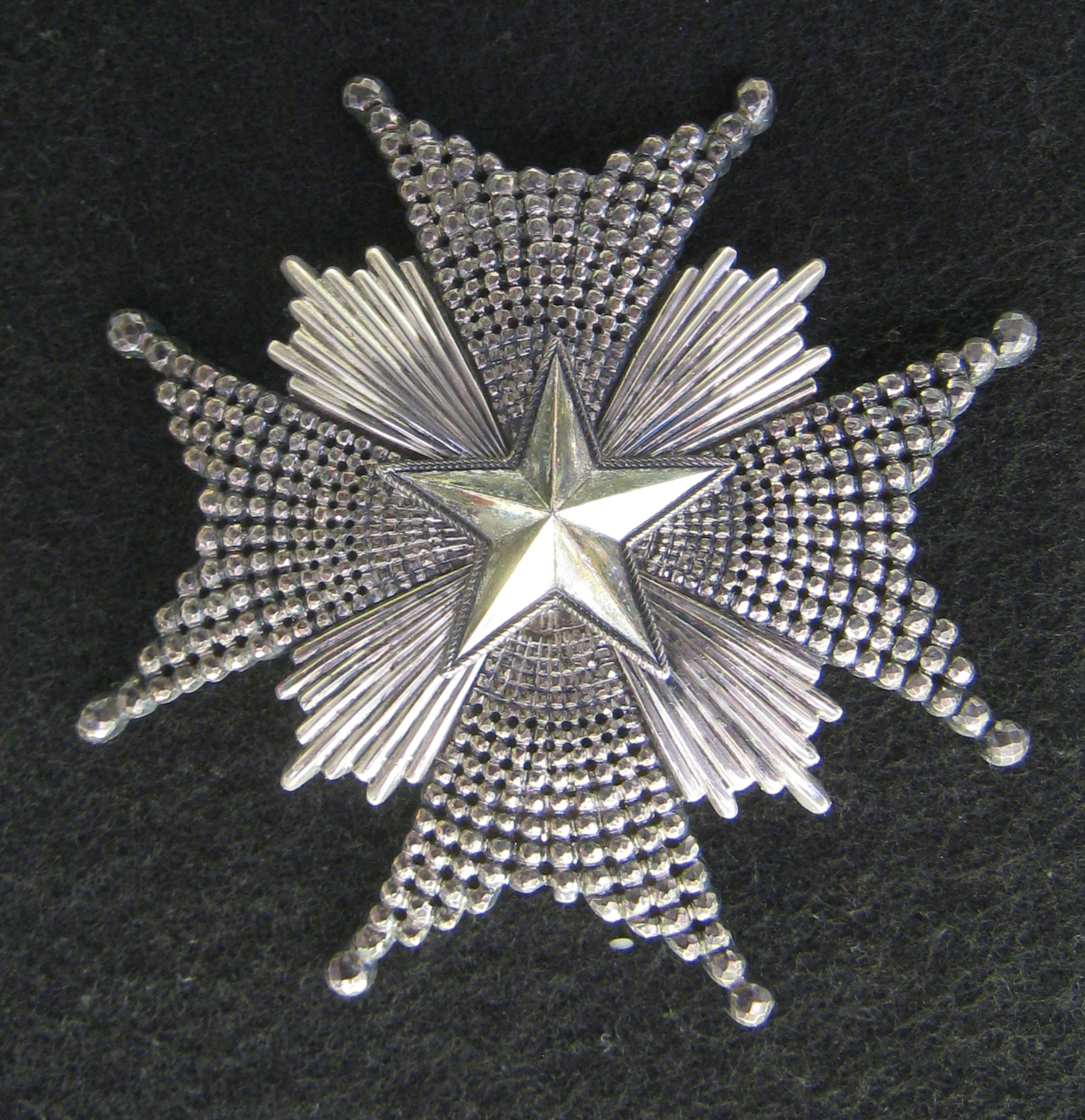 Order of the Polar Star, Star (Sweden), from the collection of Don Pedro Christopherson. In the Fram Museum, Oslo, Norway.